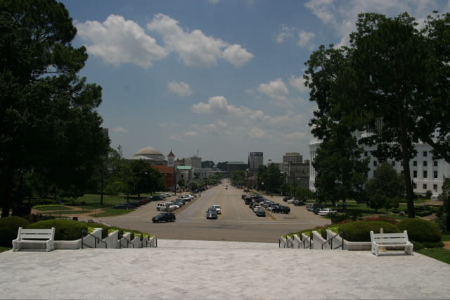 Montgomery city view. View from State Capitol (looking west down Dexter Ave). Taken in Montgomery, Alabama, U.S.A.